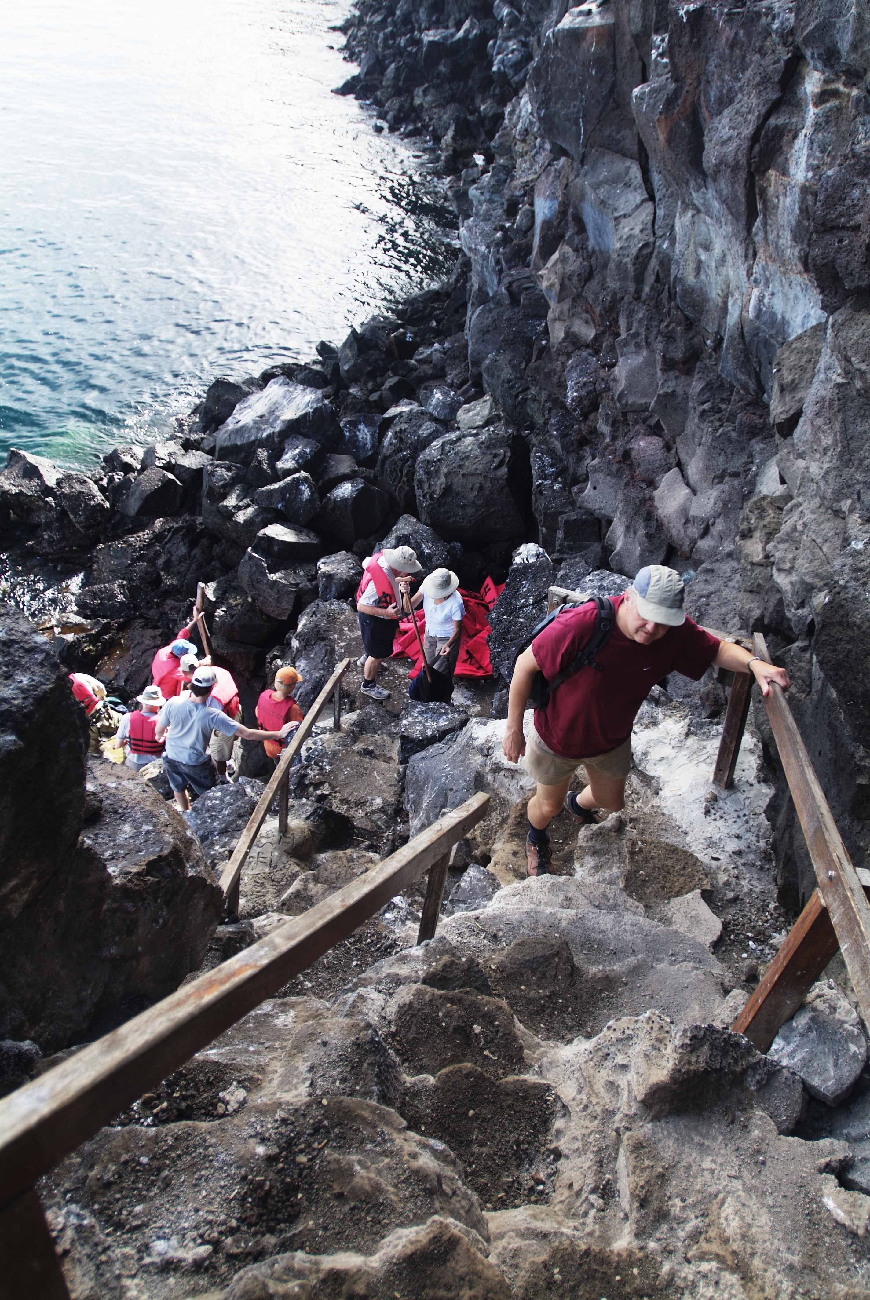 Hiking up Prince Philip's Steps, named for the prince's 1964 visit.